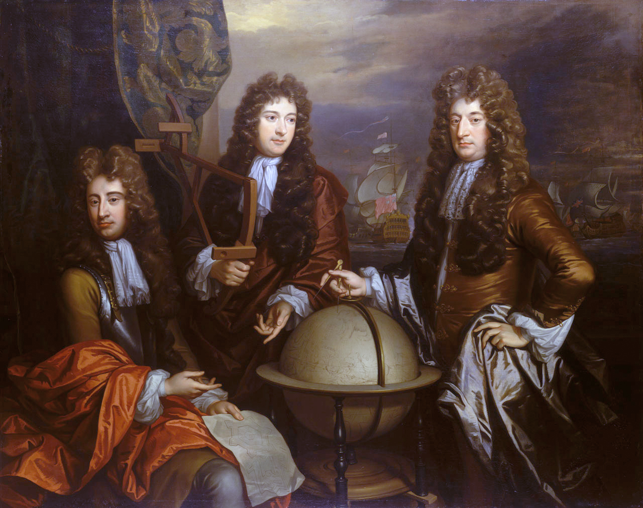 A triple portrait of Thomas Phillips, John Benbow, and Sir Ralph Delavall.